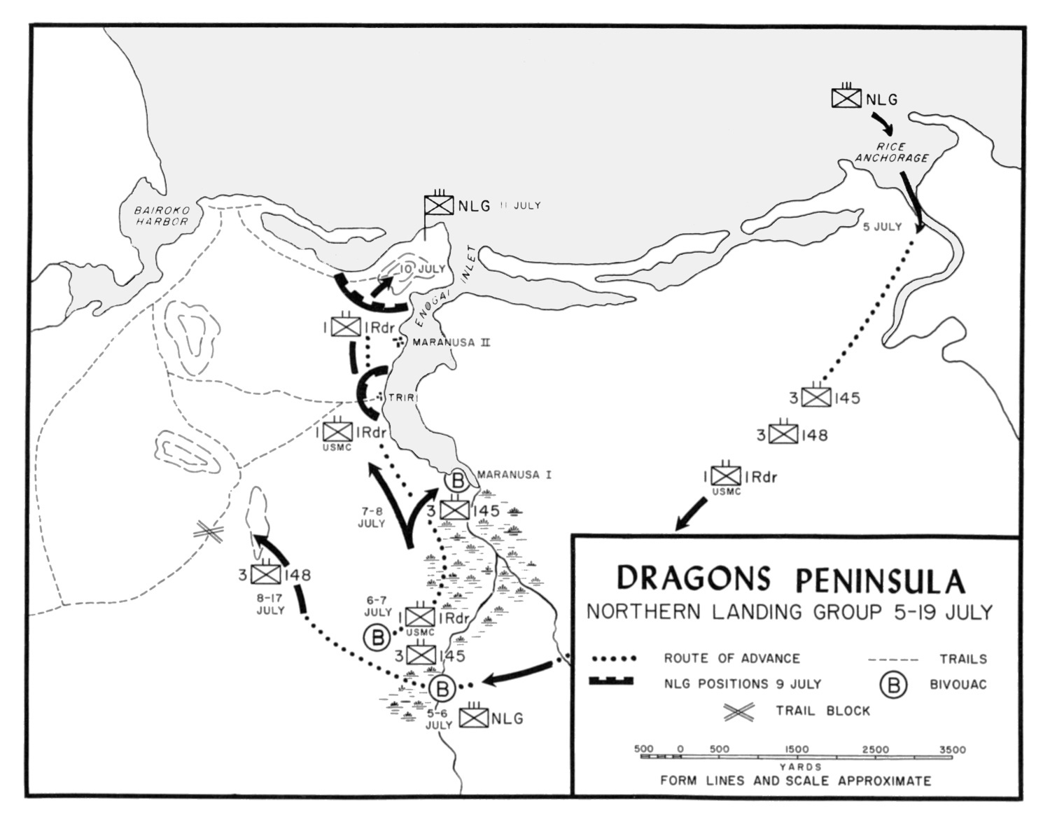 Map of the landings, march, and attack on Enogai on New Georgia, Solomon Islands July, 1943.